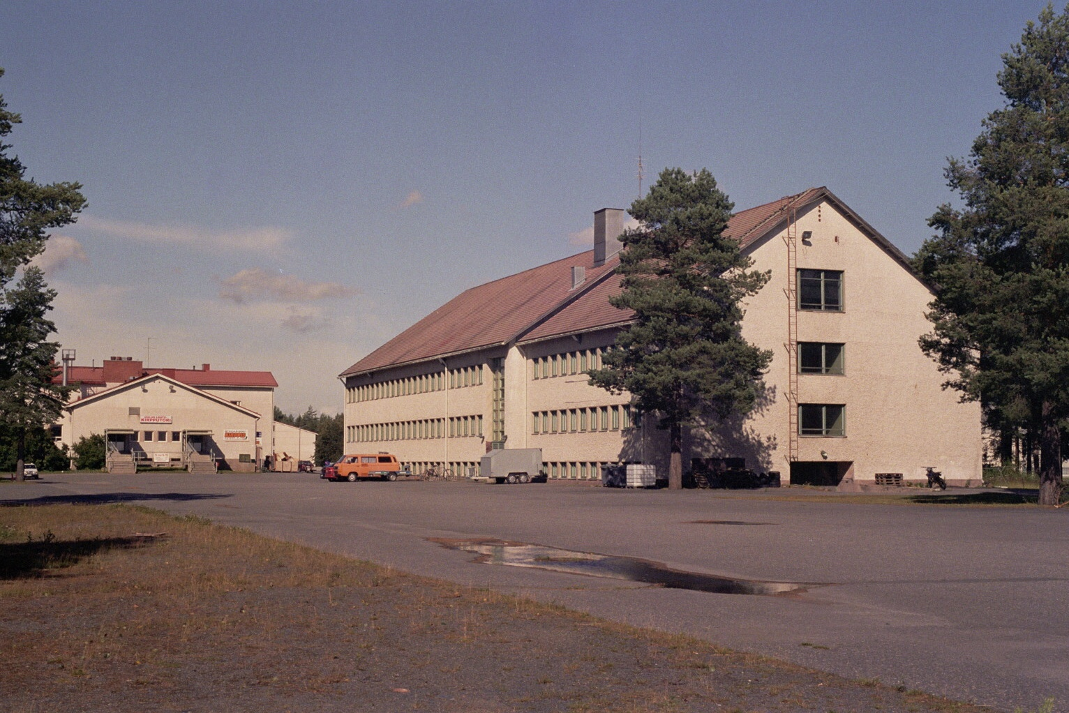 Former barracks and other related buildings in the Hiukkavaara district of Oulu, Finland. They were originally used by Pohja Brigade (disbanded in 1998).